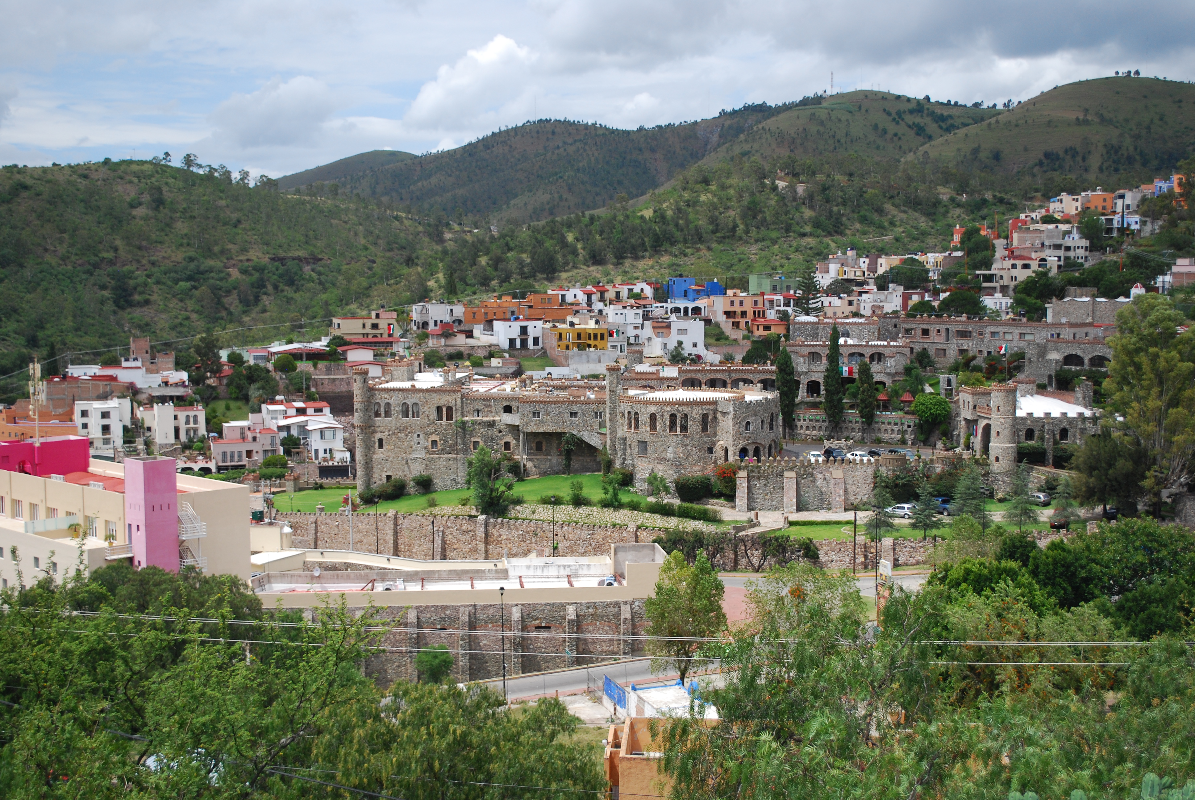 Castilla de Santa Cecelia in Guanajuato, Mexico